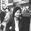 Qian Xiuling (1912 – 2008) was a Chinese Scientist who won medals in Belgium. Crop of street scene picture